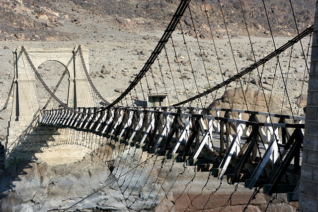 Bridge enroute to Chilas